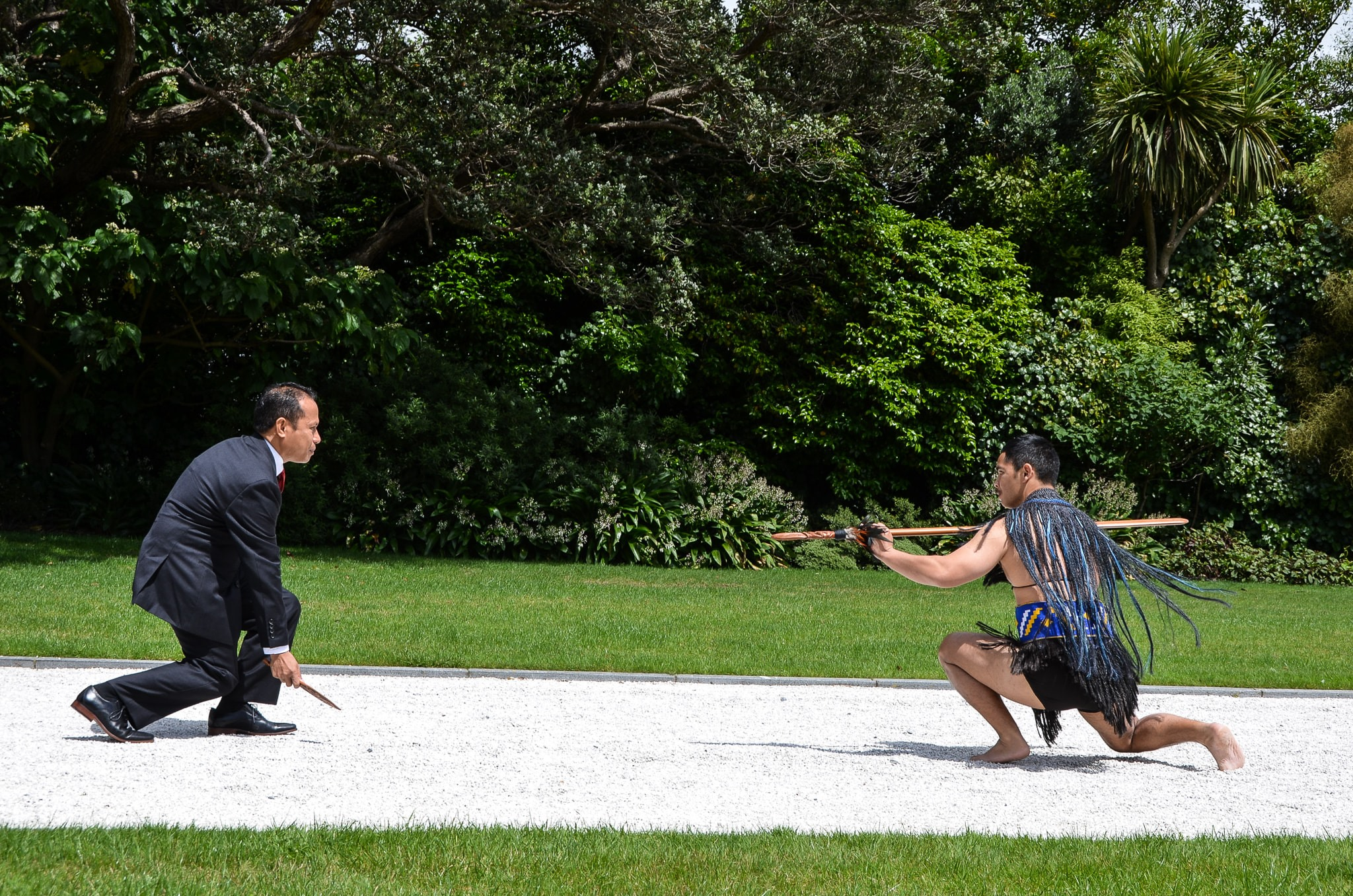 Timor-Leste’s Ambassador presents the Letters of Credence to the Governor-General of New Zealand H.E. Mr. Lisualdo Gaspar, Ambassador of Timor-Leste presented the Letters of Credence to Her Excellecy Right Honourable Dame Pasty Reddy, GNZM, QSO, Governor General of New Zealand in a solemn ceremony held in the Government House, Wellington, New Zealand on 12 November 2019. In the speech during the ceremony, Ambassador Lisualdo Gaspar conveyed the warm greetings from His Excellency President Dr. Francisco Guterres Lú Olo to the Governor General, the Government and the people of New Zealand and best wishes for the prosperity of New Zealand and the long lasting friendship between the two countries. Timorese Ambassador also acknowledged with gratitude for the continued support provided by New Zealand to Timor-Leste since 1999 until today. He also affirmed the commitment of the Ambassador to work with the Government of New Zealand to further improve and enhance the very friendly and close relationship between Timor-Leste and New Zealand. Similarly, in her speech, Her Excellency Governor-General of New Zealand conveyed the best wishes and thanks to His Excellency President Lú Olo and restated the commitment of New Zealand to continue assist the development of Timor-Leste. The Governor General of New Zealand expressed the admiration for the strength, courage and tenacity of Timorese leaders and people during the long struggle for independence, as well as the sacrifices so many Timorese made for cause of independence. Furthermore, H.E. Dame Pasty Reddy noted with pleasure the remarkable achievement of Timor-Leste in terms of the stability, security and vibrant democracy in such a short time. During the presentation of the Letters of the Credence, Ambassador Lisualdo Gaspar was accompanied by his spouse Judith Vital Soares and First Secretary of the Embassy Mr. Armindo Simões. He is the second resident Ambassador of Timor-Leste to New Zealand after Ambassador Cristiano Costa.